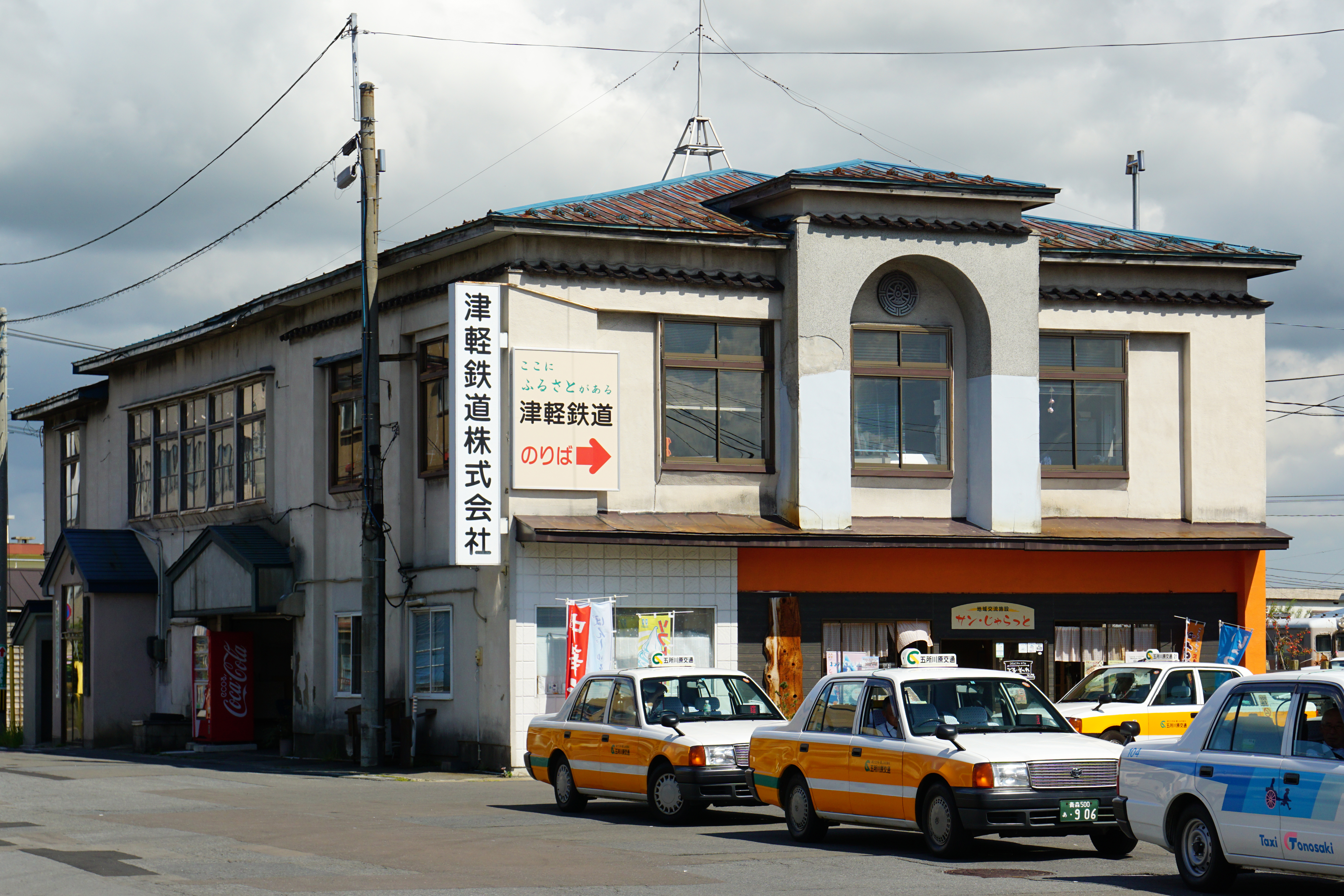 Tsugaru Railway headquarters building in Goshogawara, Aomori prefecture, Japan.